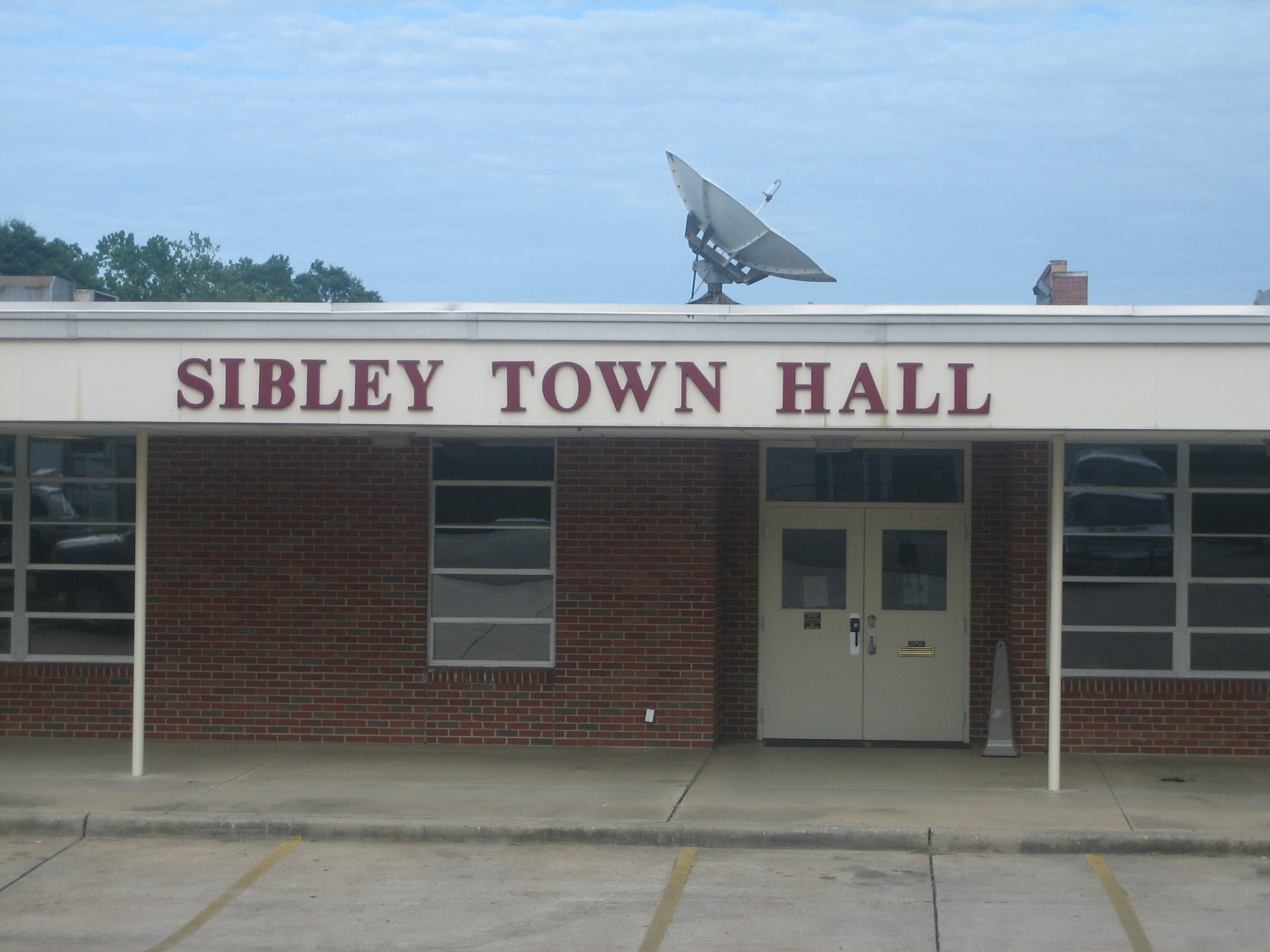 I took photo on May 21, 2009.Billy Hathorn (talk) 16:16, 29 May 2009 (UTC)